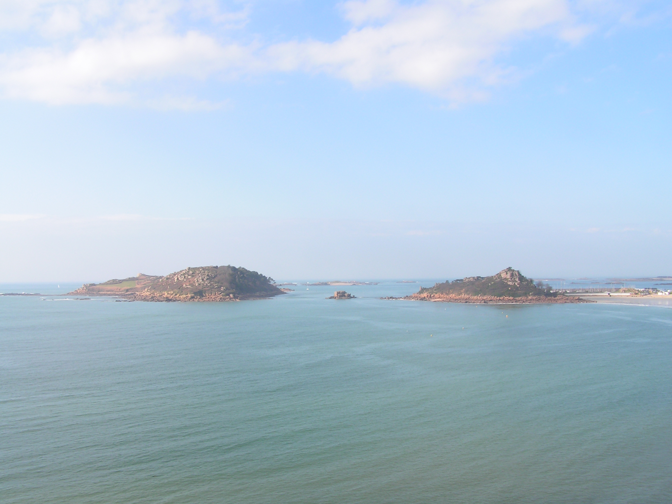 Milliau Island (Trébeurden, Brittany). On right, Cape of Castel